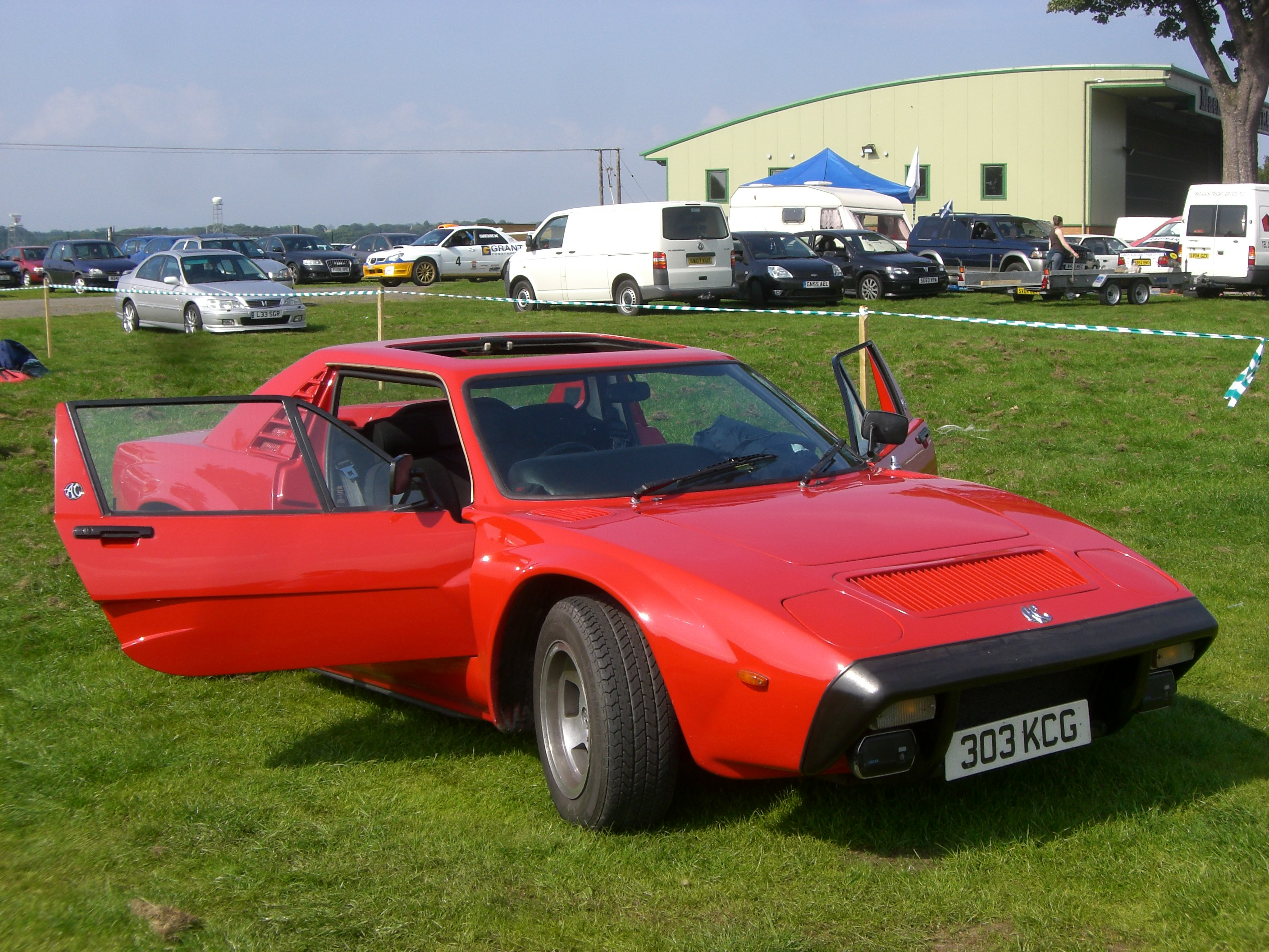 AC 3000ME (Scotland Version, 1984/1985, open targa roof, front right)